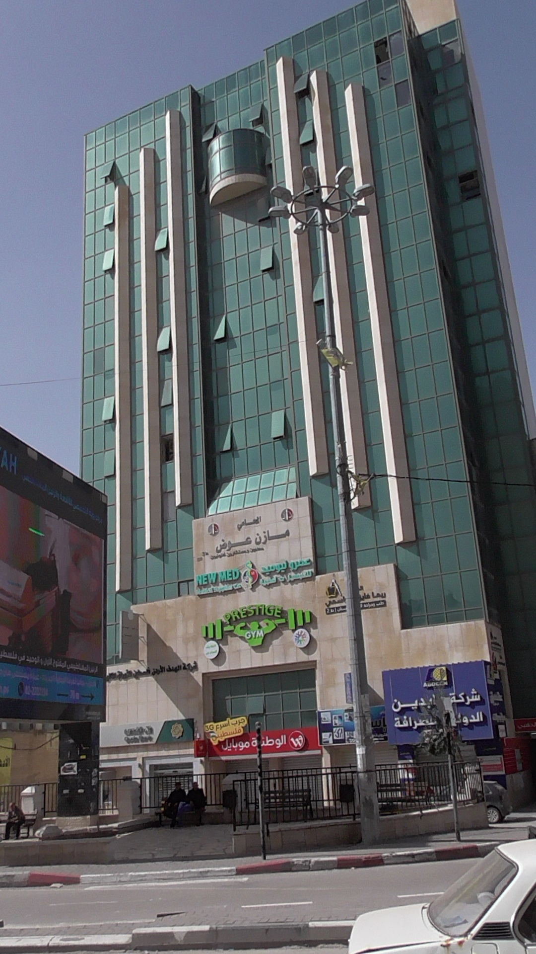 Hebron center February 2018